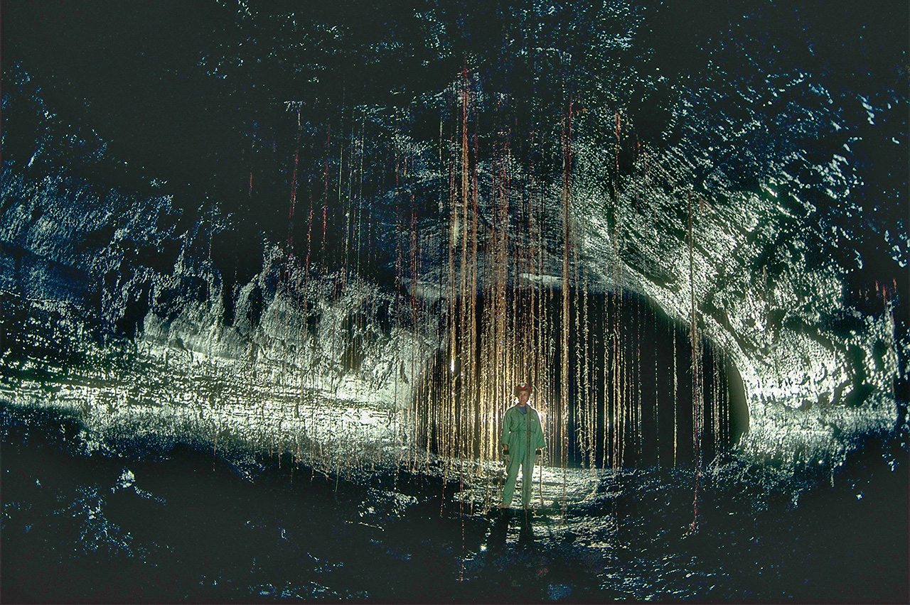 A forest of tree roots in the main corridor of Kazumura. These roots are very sensitive and care should be taken not to damage them when moving through the cave.